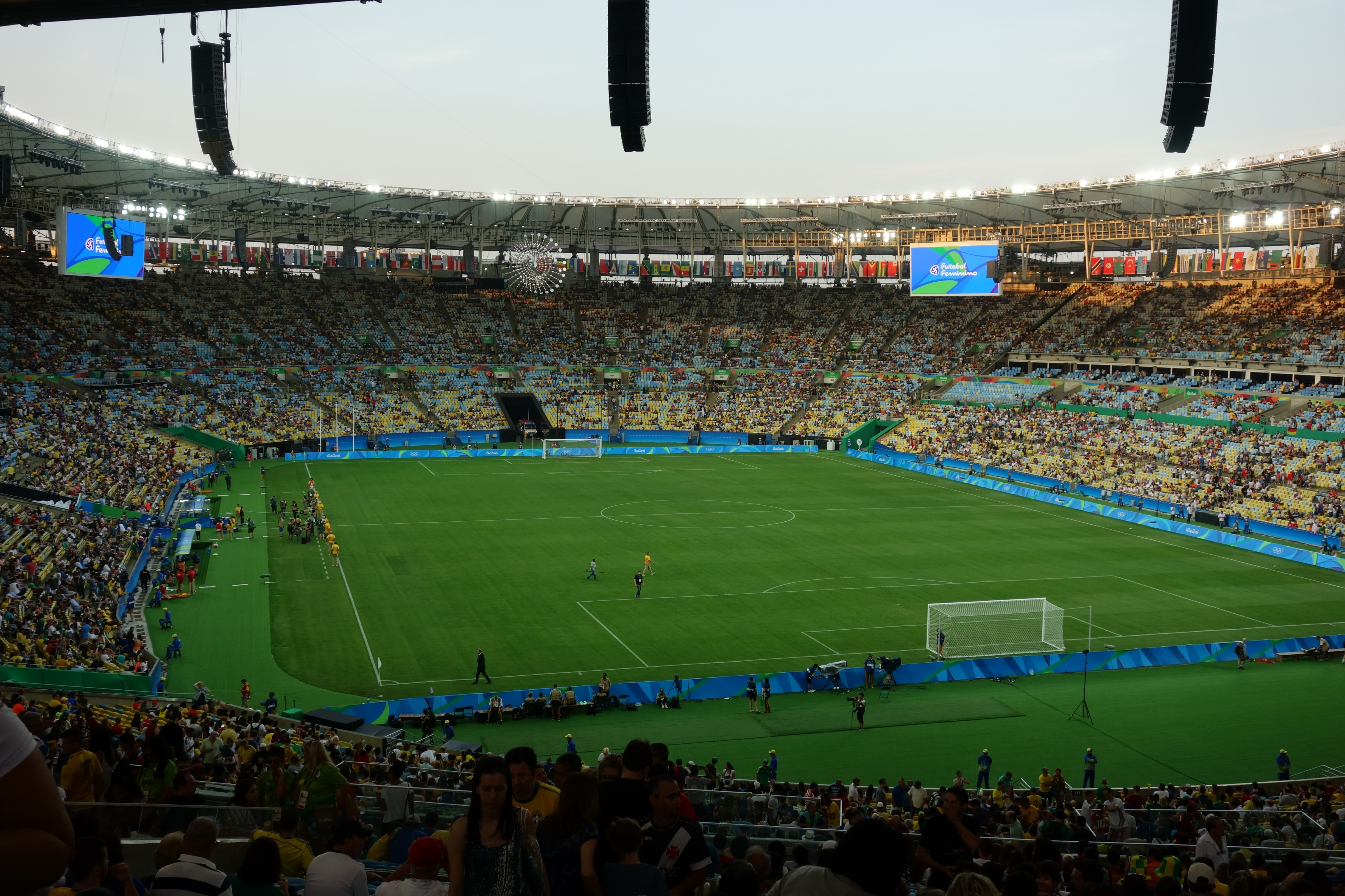 Sweden vs Germany, final, women's football tournament at the 2016 Summer Olympics, Maracanã Stadium, Rio de Janeiro, Brazil.